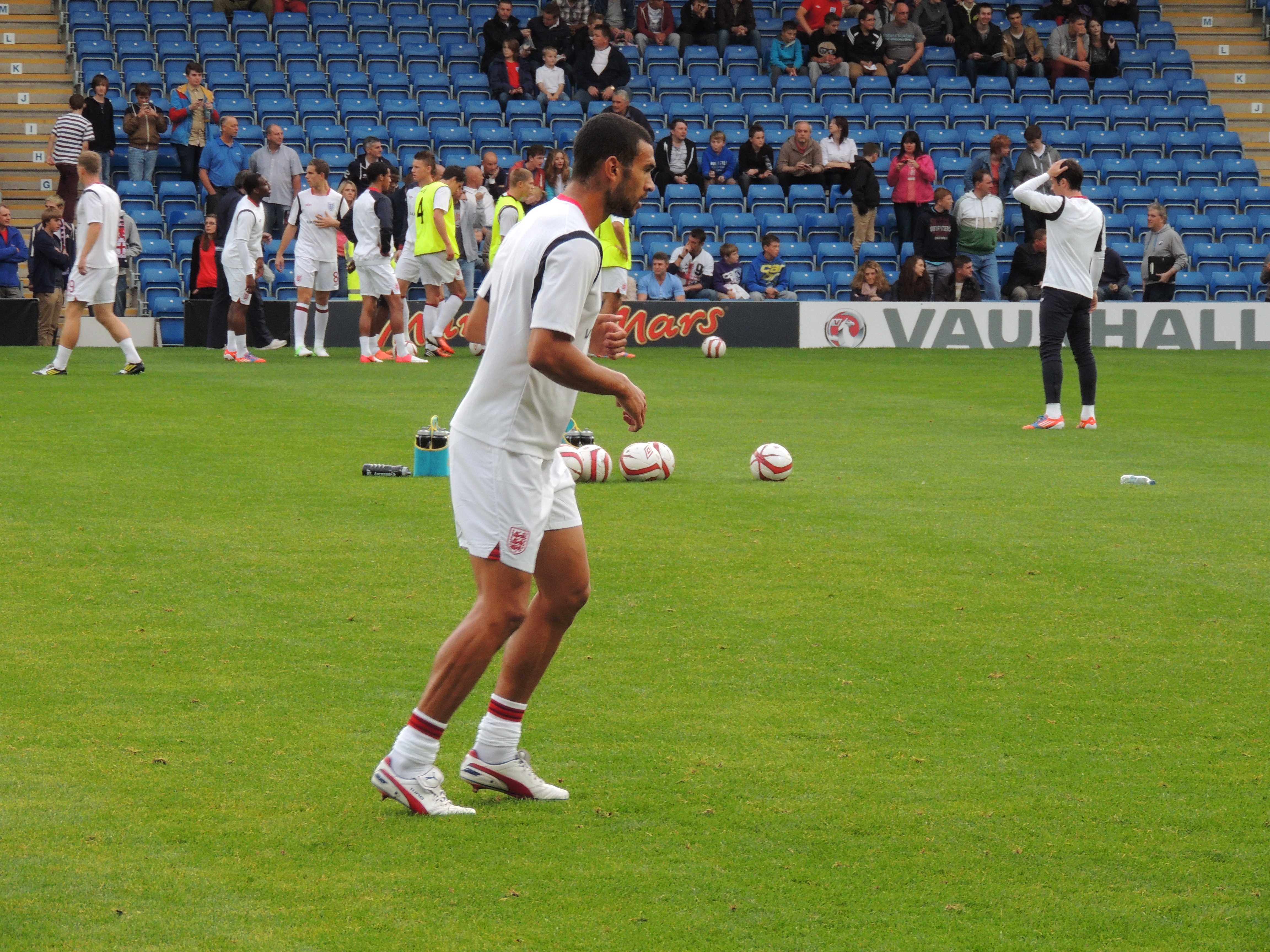 England U21 vs Norway 10-09-12 012